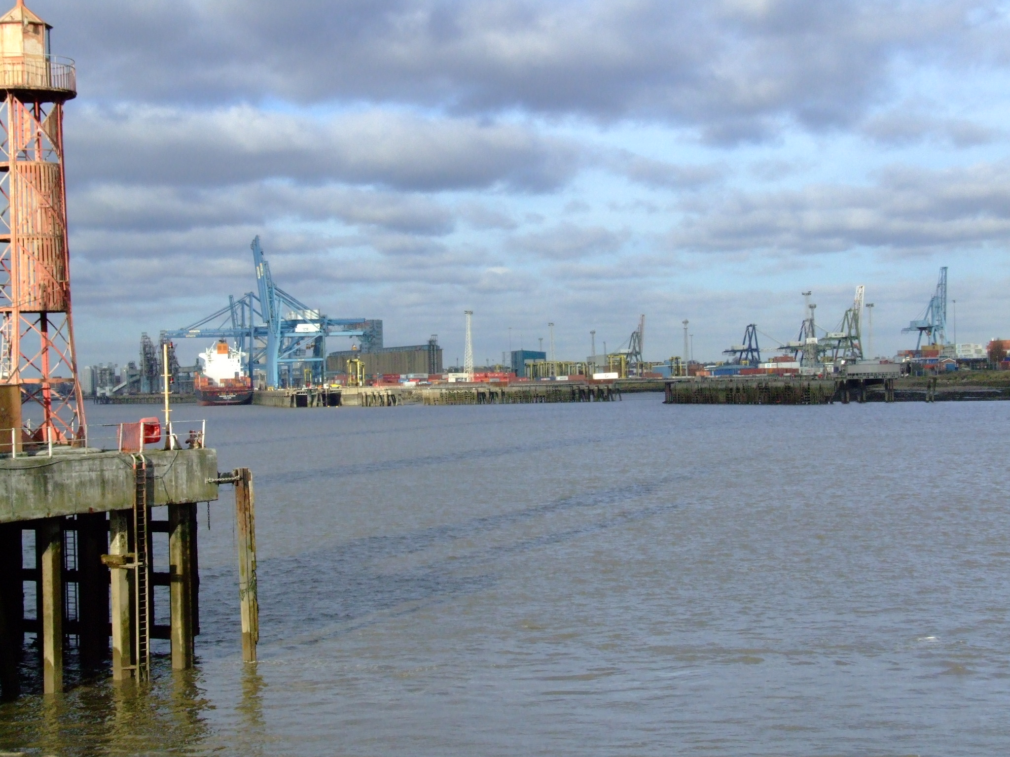 Northfleet merges with Gravesend in Kent. It is on the River Thames estuary. The shore has been excated for chalk, and heavy industry used the recovered land.. Northfleet Hope flows NW-SE, and as it rounds Tilbury Ness, into Gravesend Reach, the flow changes W-E To the left is the beacon, and opposite is the Tilbury container port complex. - Google Maps - Google Earth